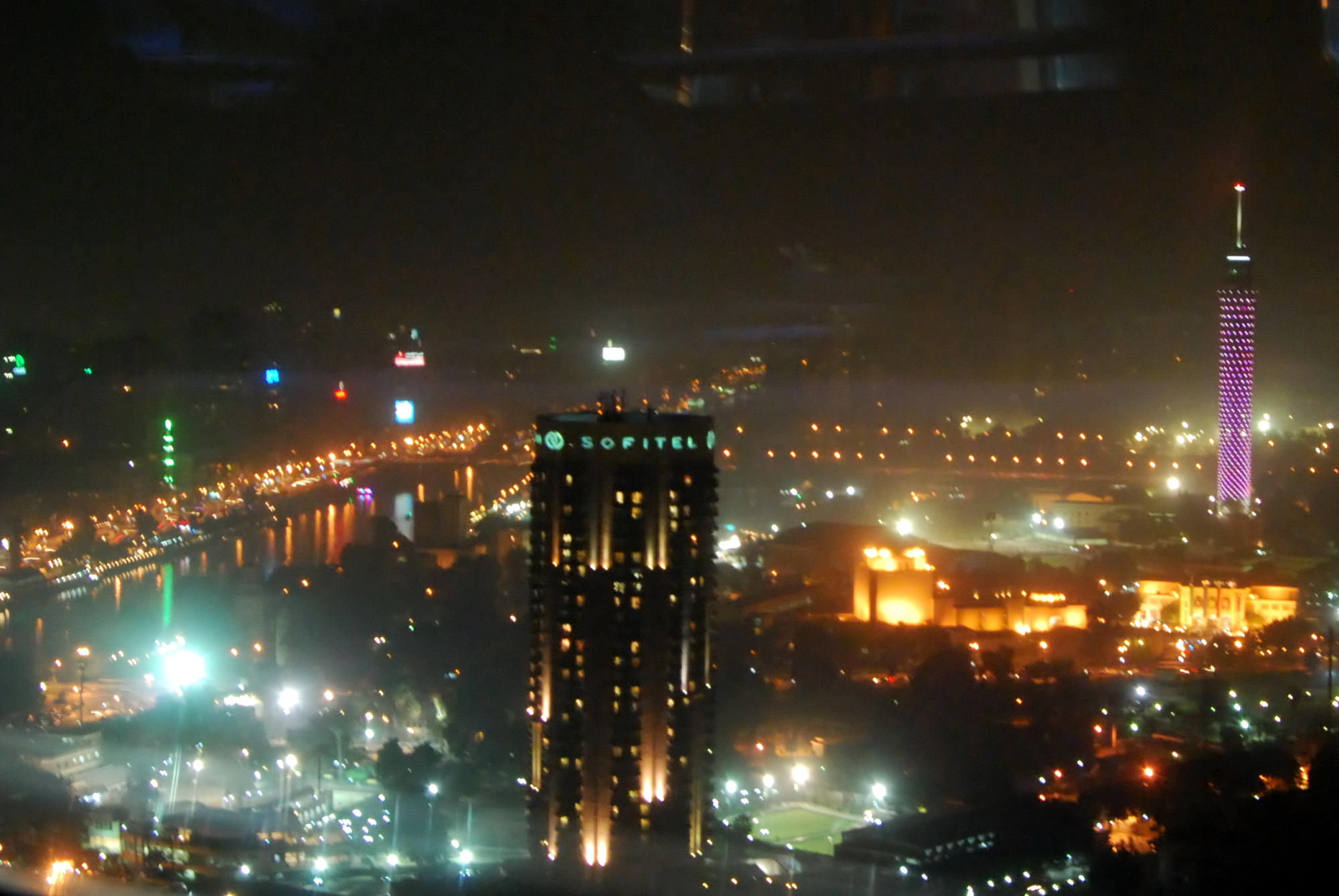 Cairo Tower at night, showing Gezira island and Sofitel Hotel.